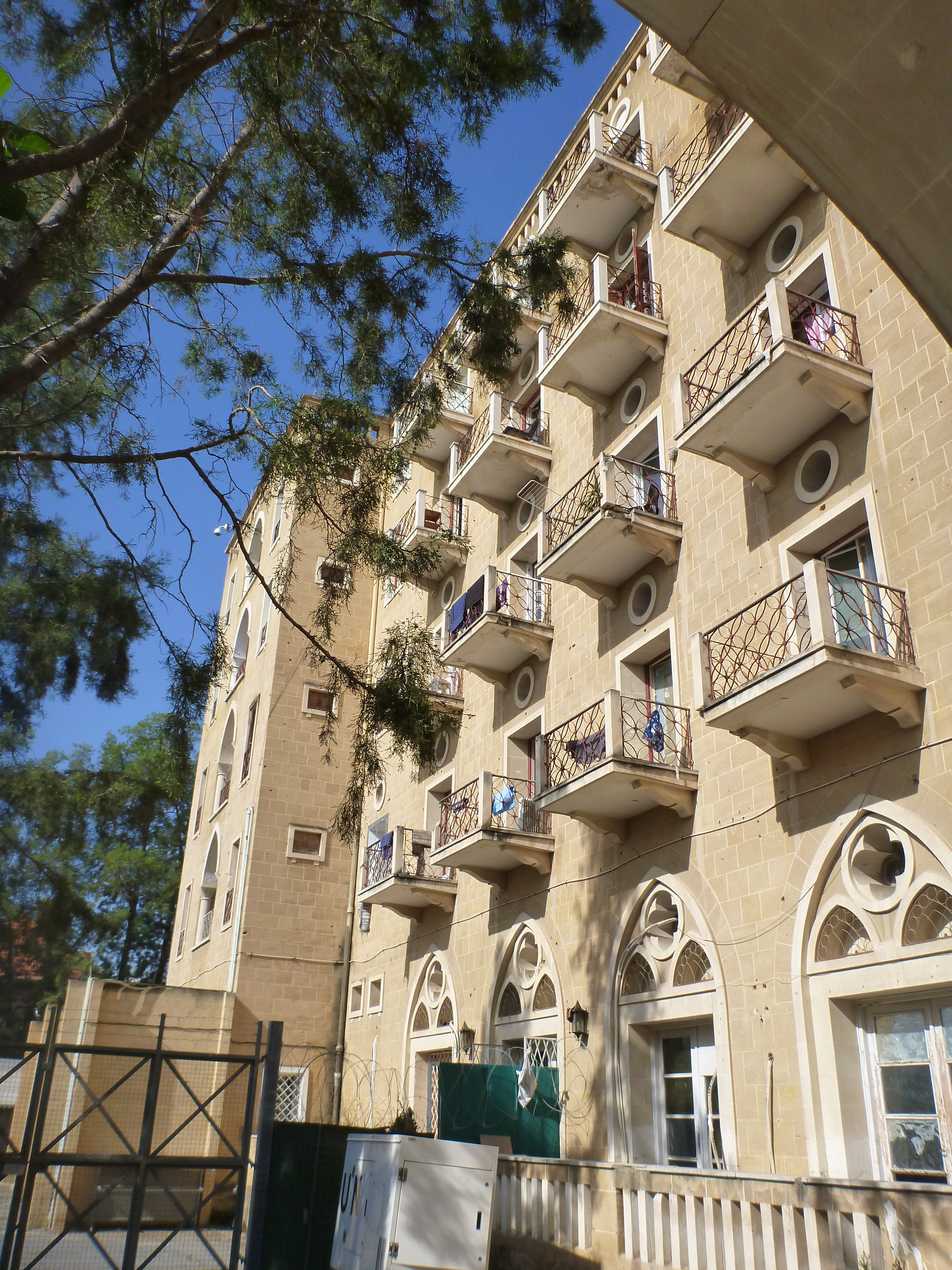 Balconies on the East façade of the Ledra Palace Hotel, with the rooms occupied by UNFICYP BRITCON troops.